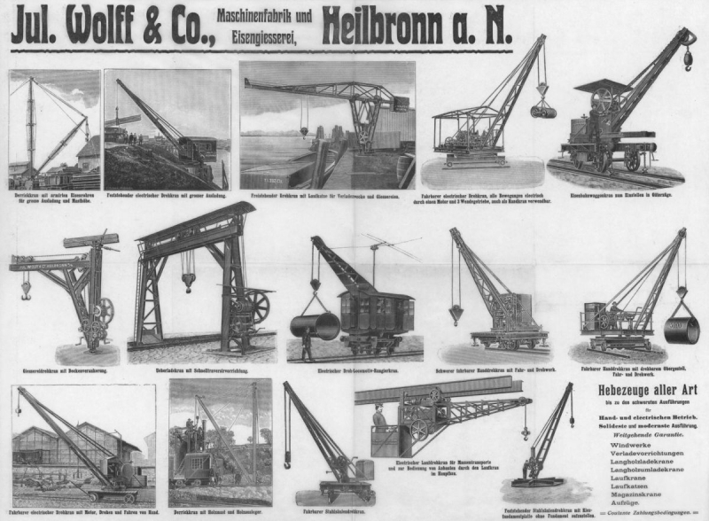 s.